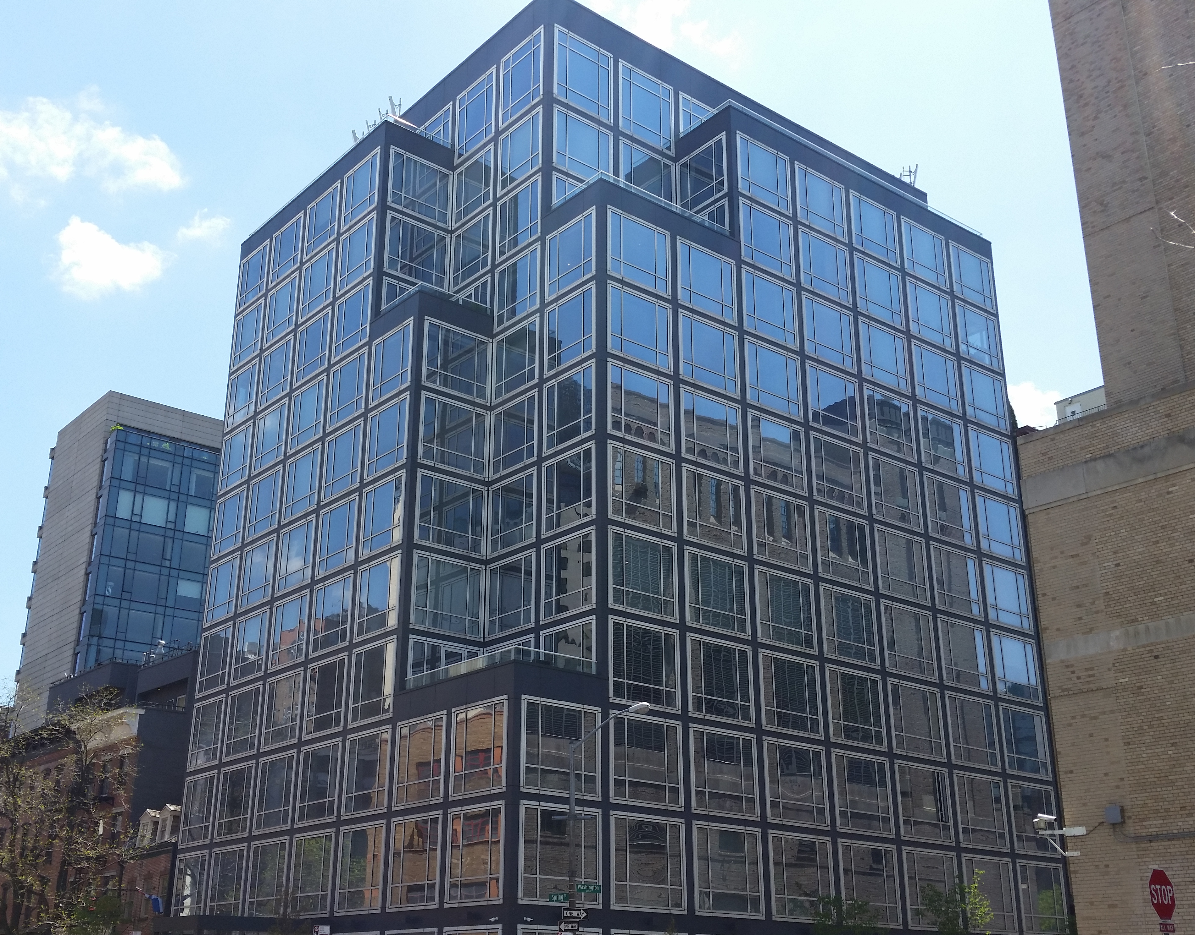 Philip Johnson's Urban Glass House